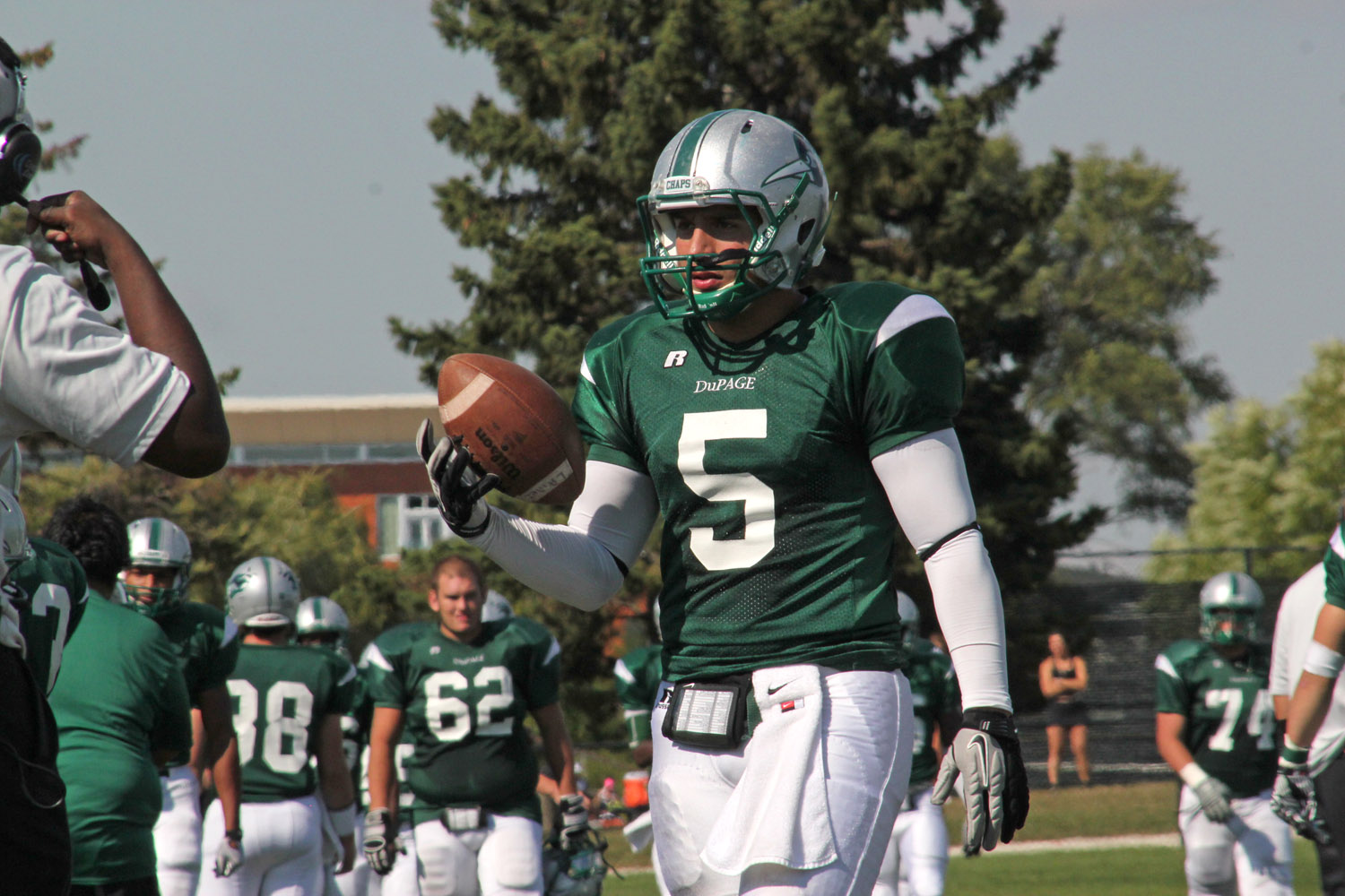 The COD Chaparrals football team recently played their first home game.